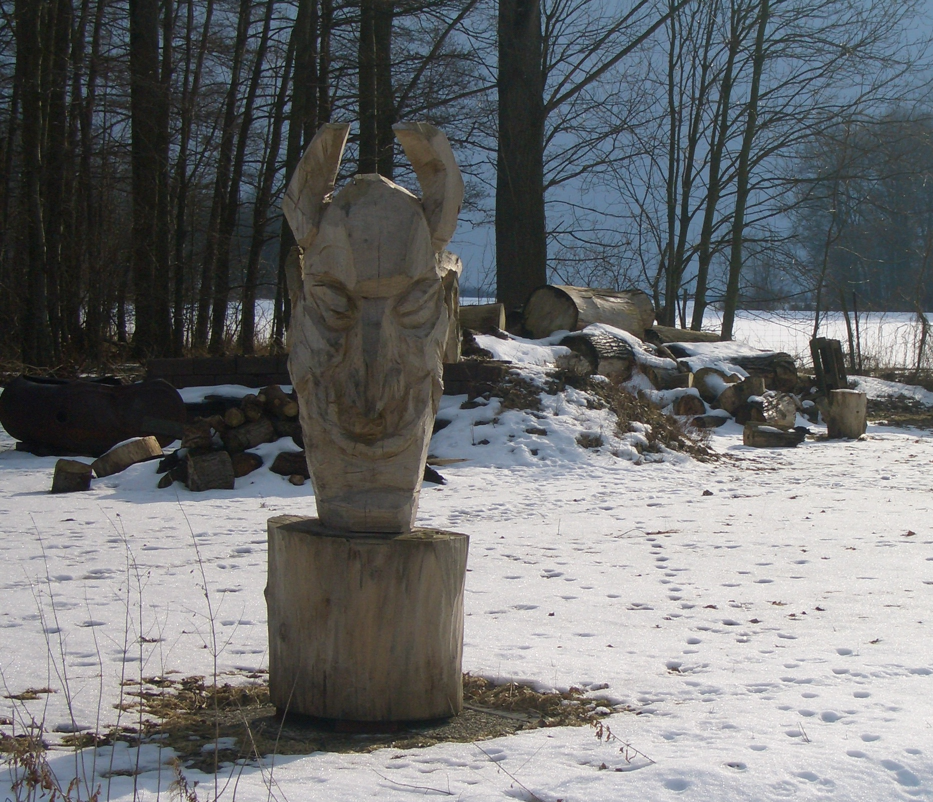 Scuplture at Fuhsekanal near Stiddien